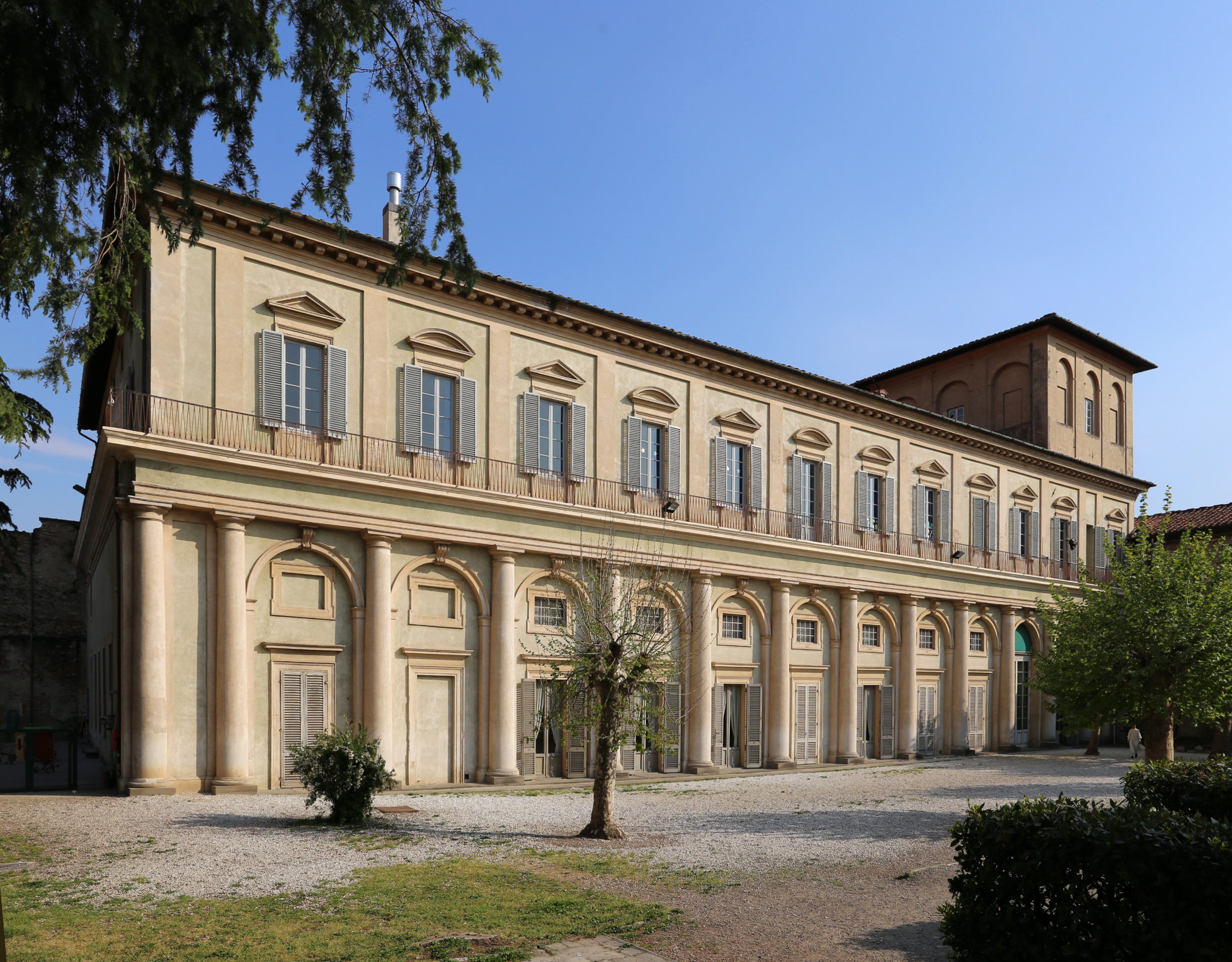 San Niccolò in Prato - Ala Nuova